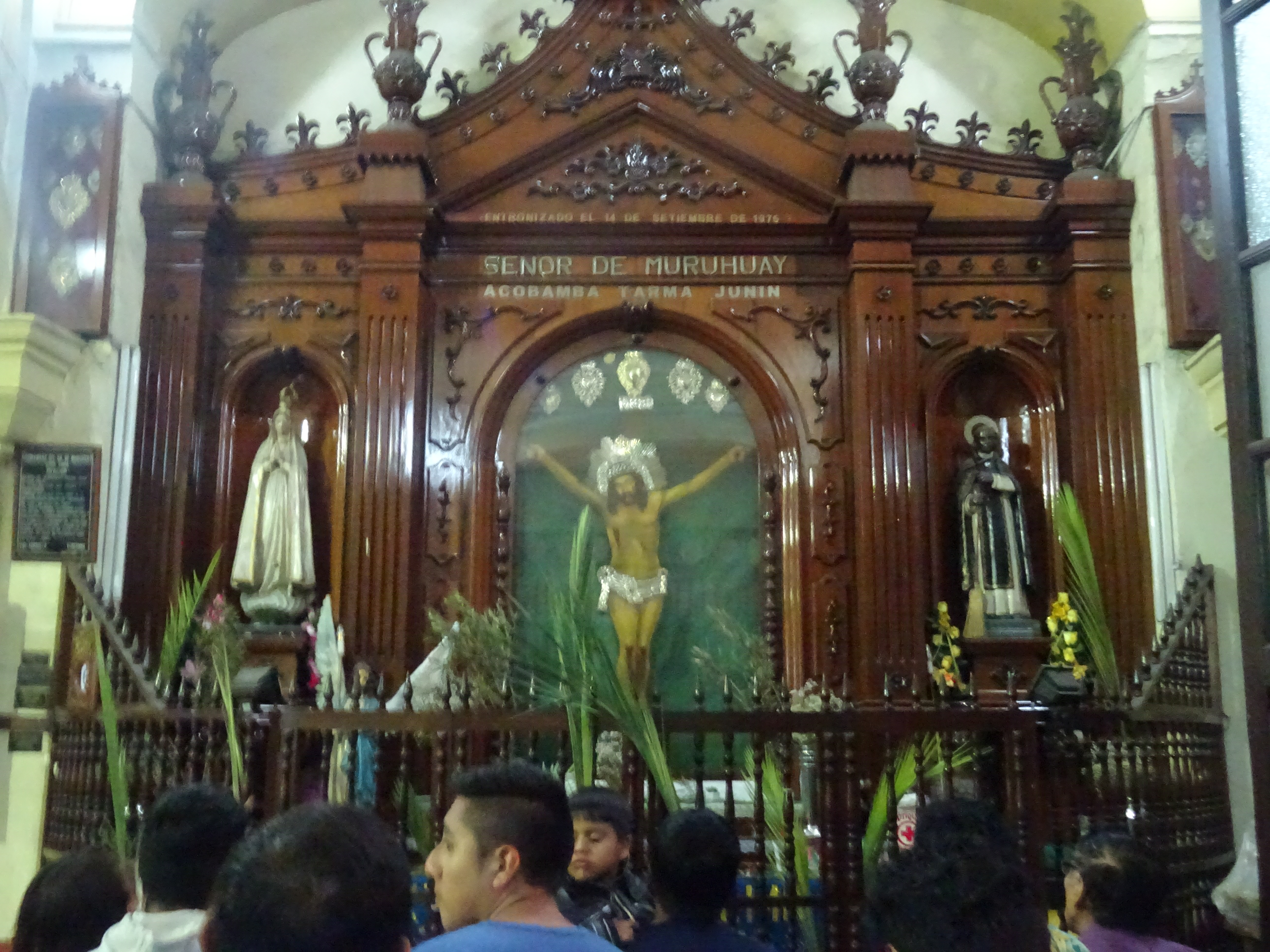 Altar of Señor de Muruhuay in St. Ana church, Barrios Altos, Lima-Peru.